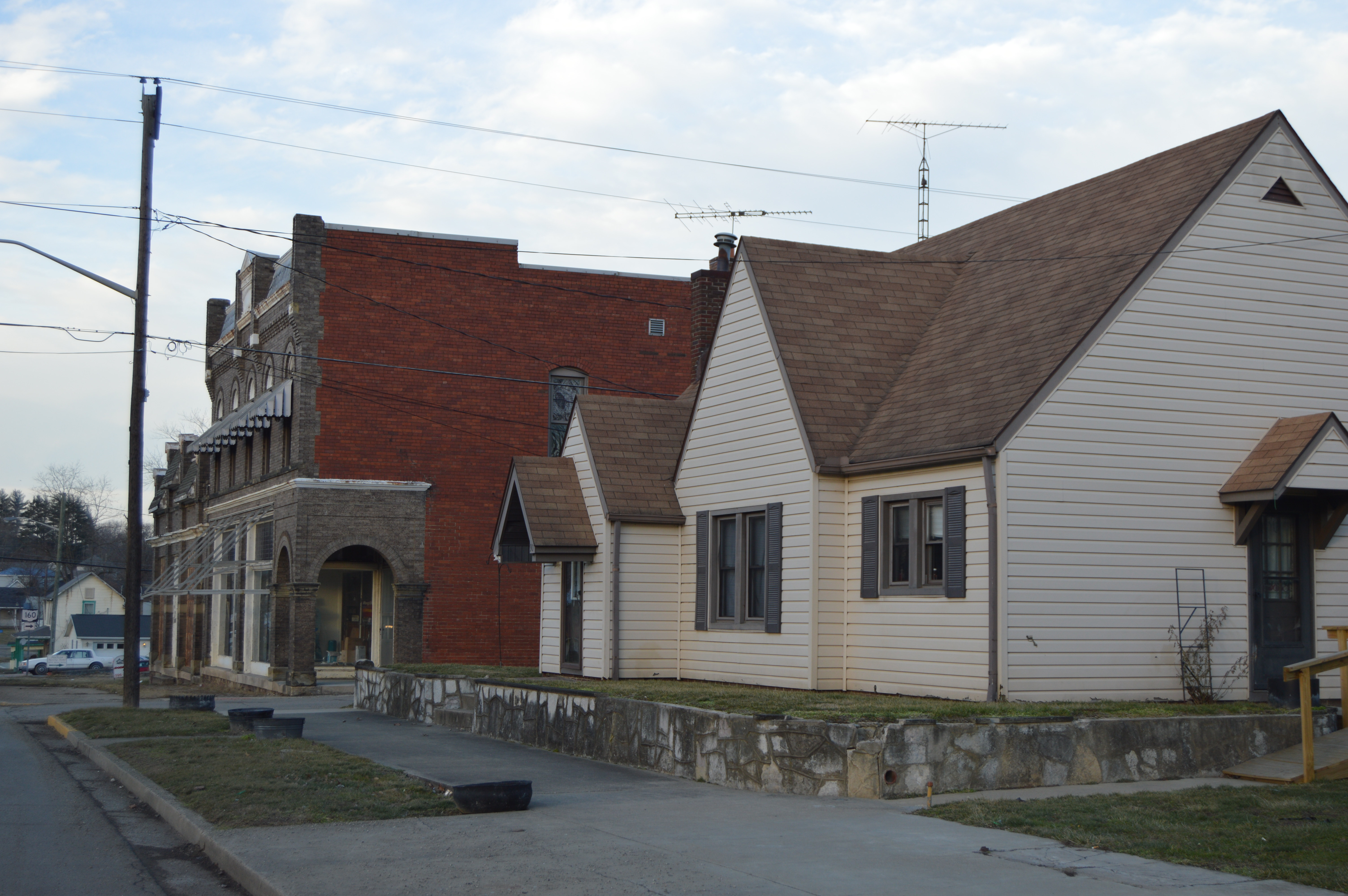 Buildings on the eastern side of Main Street (State Route 93) at the Chillicothe Street intersection in Hamden, Ohio, United States.